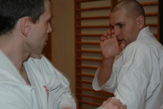 Martial arts training session